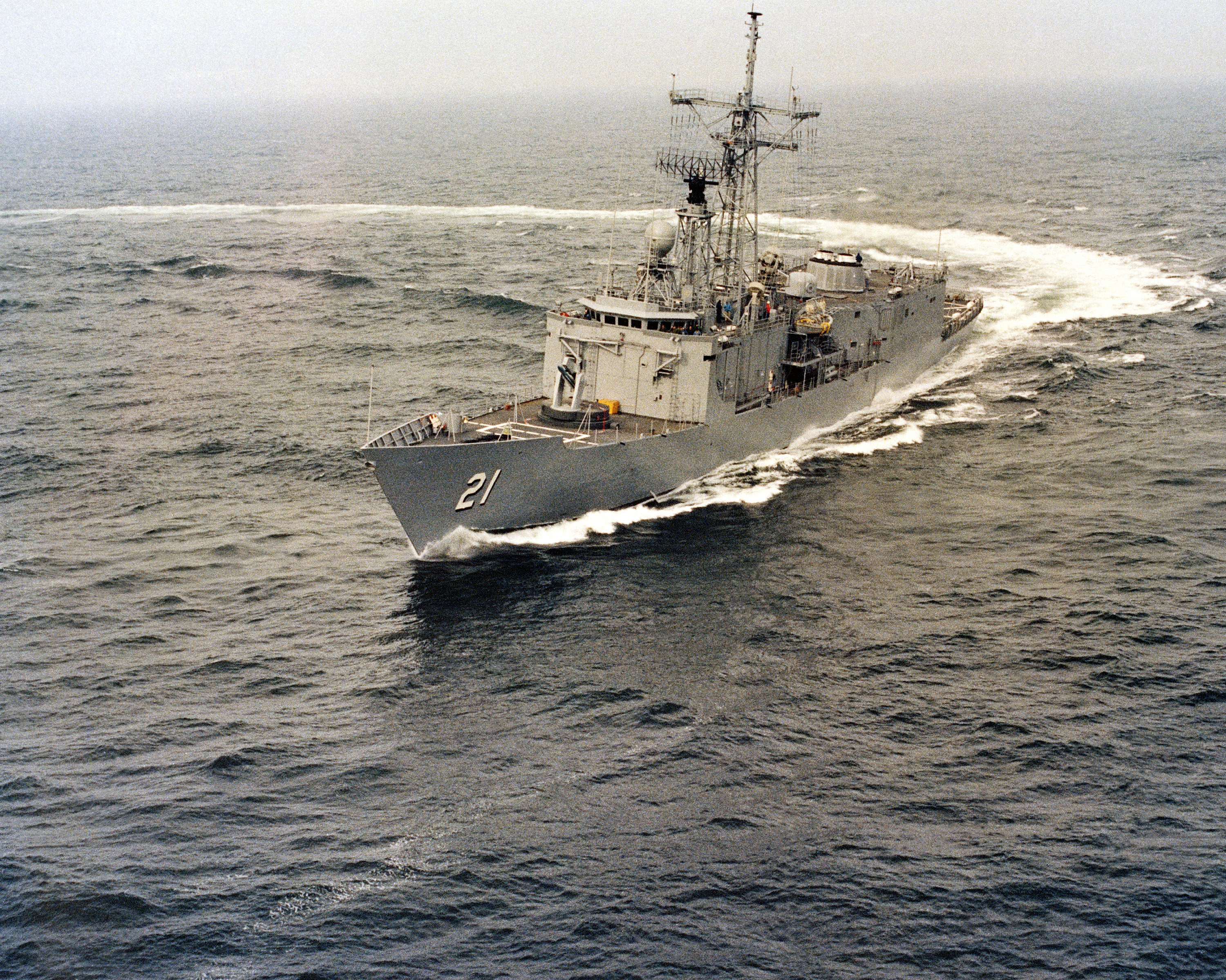 An aerial port bow view of the Oliver Hazard Perry class guided missile frigate USS FLATLEY (FFG 21) executing a starboard turn during her acceptance trials.